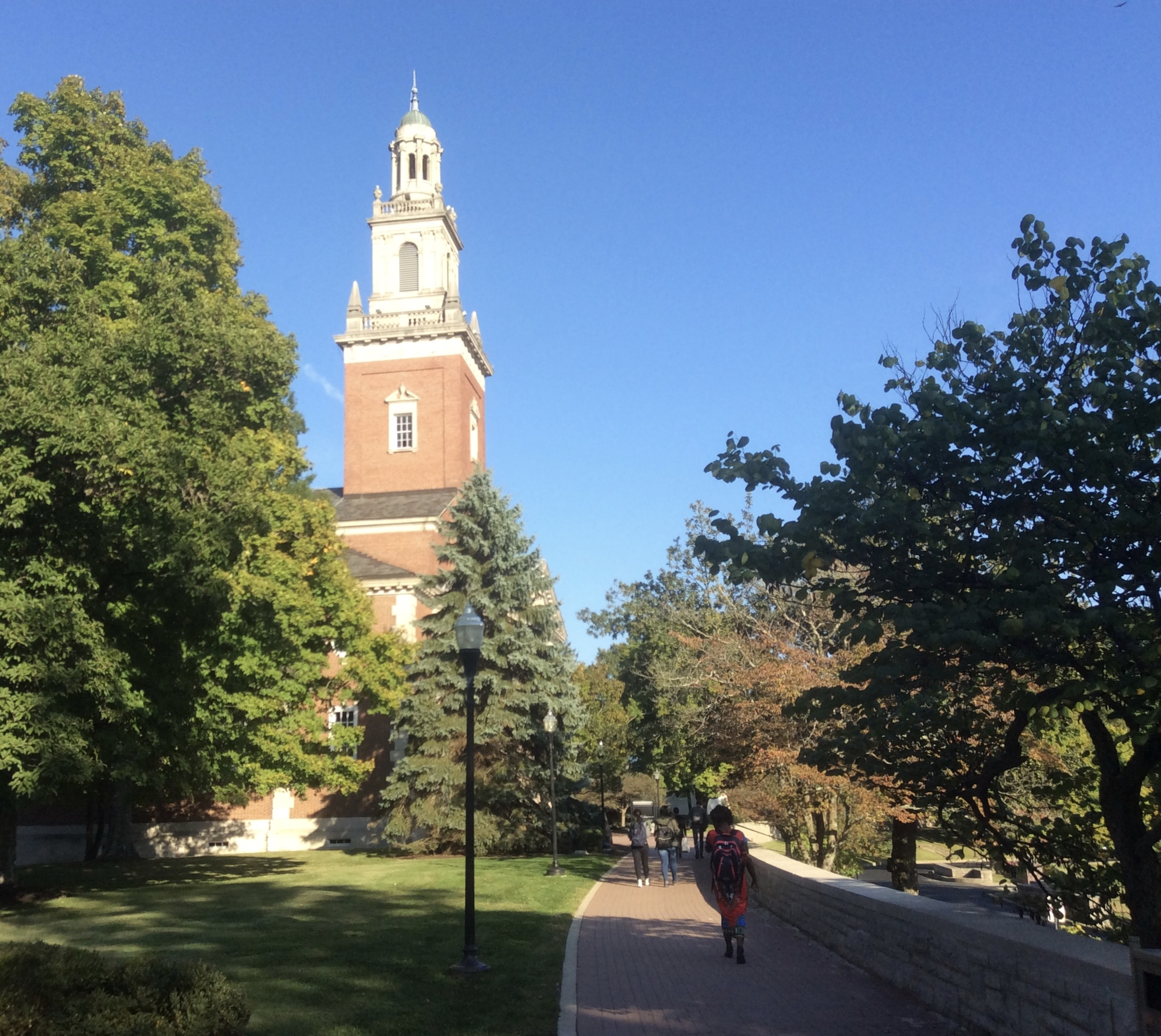 Swasey Chapel, built in 1924, is Georgian Revival in style. The chapel was designed by Arnold Brunner of Cleveland and was the gift of Ambrose Swasey, a Cleveland industrialist. The tower is a landmark and can be seen on its hilltop location from all highway approaches to Granville.